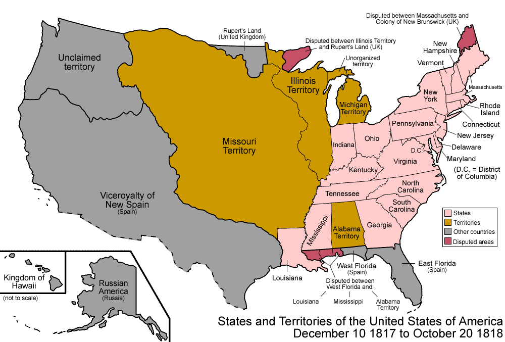 Map of the states and territories of the United States as it was from December 1817 to October 1818. On December 10 1817, Mississippi Territory was admitted as the state of Mississippi. On October 20 1818, the Treaty of 1818 settled the northern border with the holdings of the United Kingdom, and granted joint custody of the Oregon Country to the United Kingdom and United States.